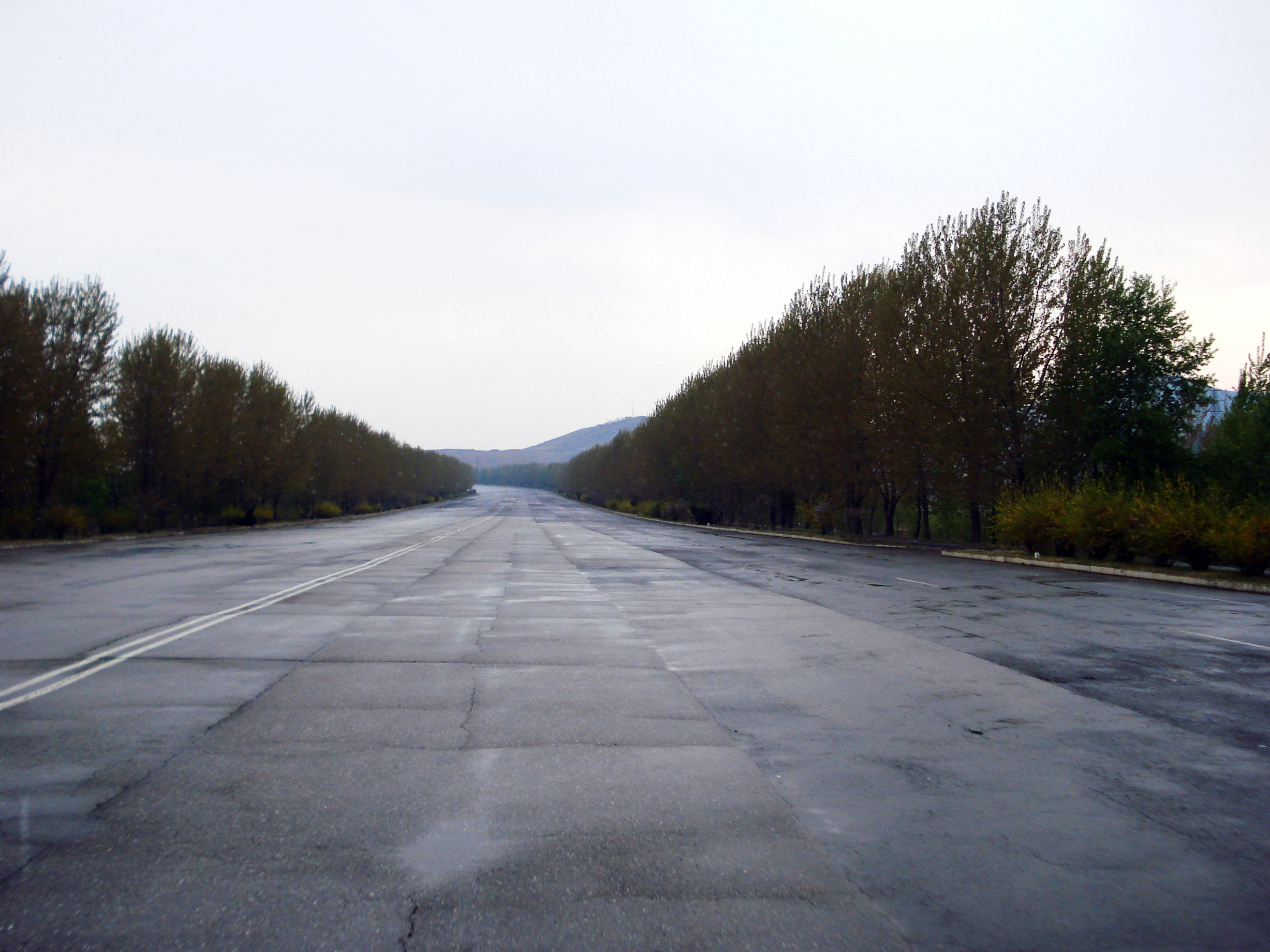 Hero Youth Highway in DPRK.